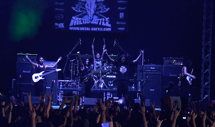 Rain Shatter from Guadalajara, México at Bullhead City Circus Stage in Waken Open Air 2012